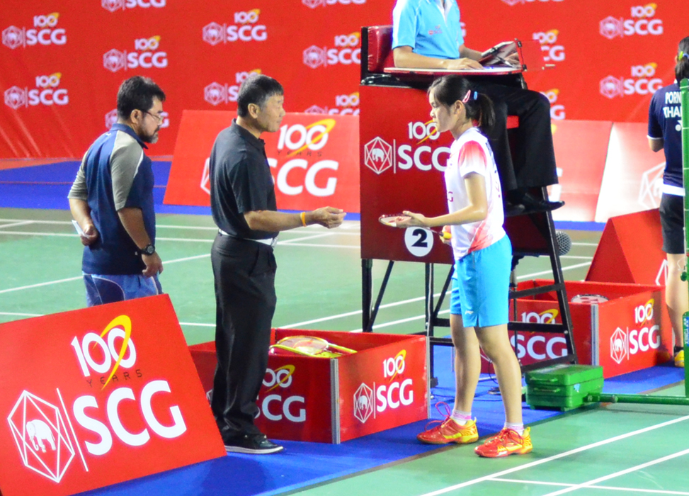 Udom & Busanan